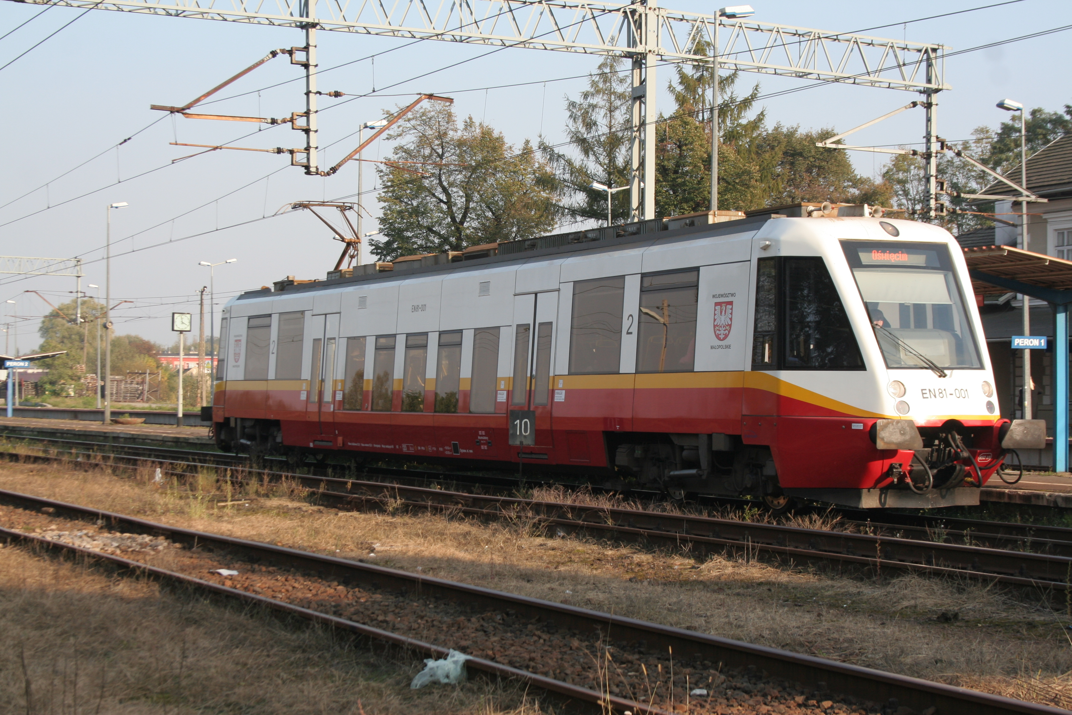 PESA EN81-001 in Skawina, Poland